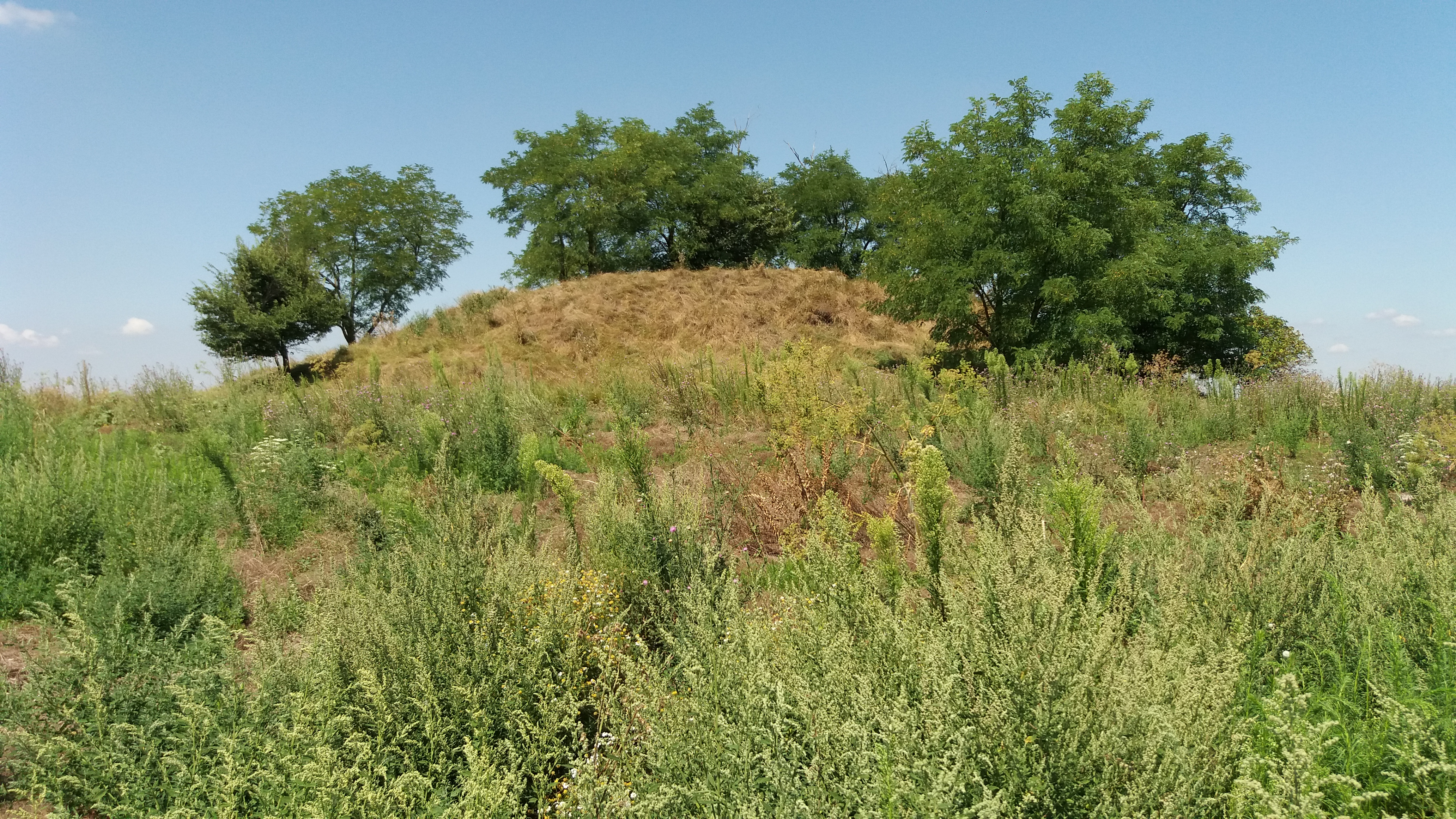 earth mound